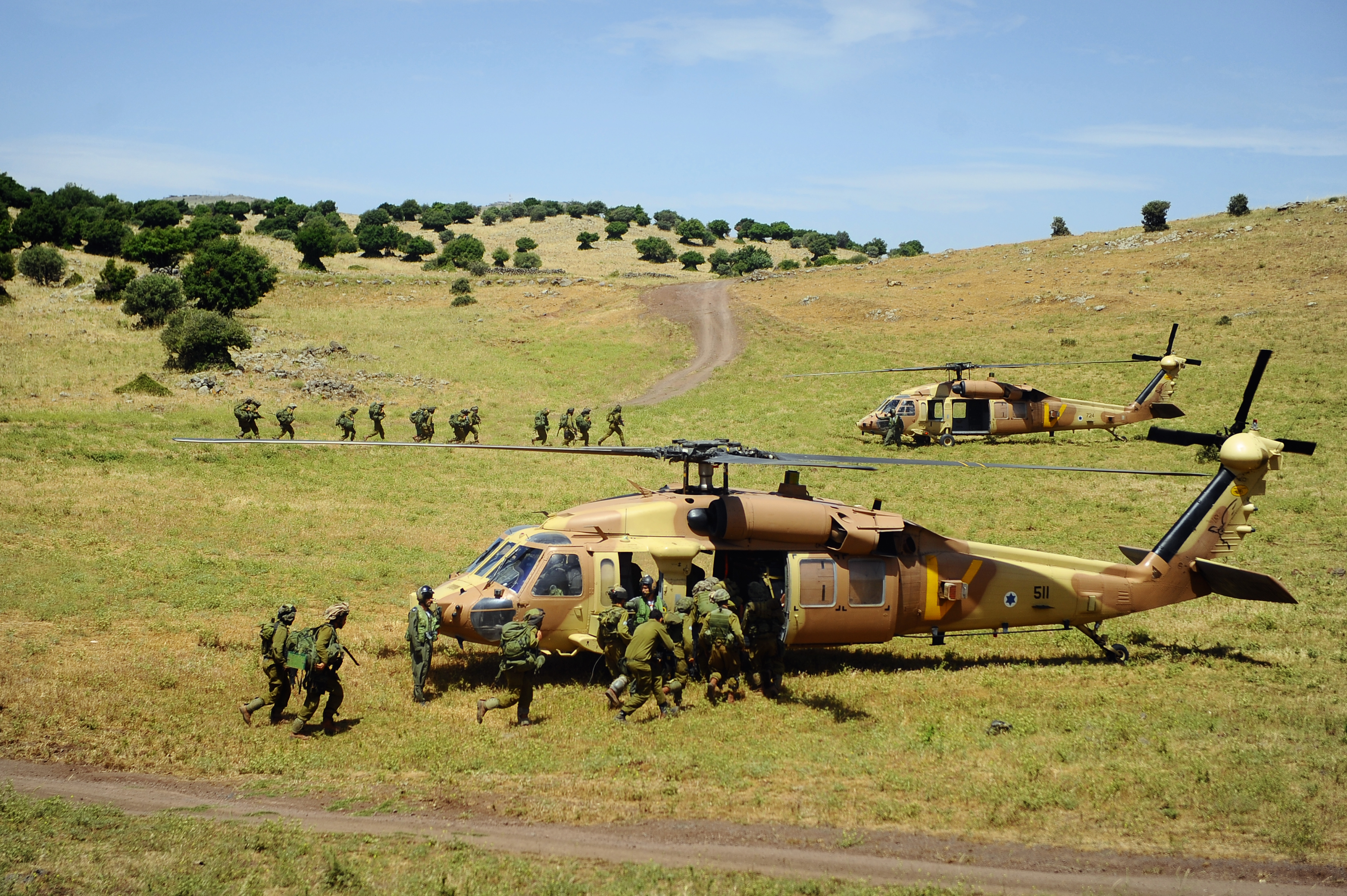 May 22, On May 22, the Nahal Brigade conducted a brigade-wide drill. The drill, also combining armored and air forces, tested the awareness and abilities of all of the brigade's soldiers. The Israel Defense Forces Facebook • blog • Twitter